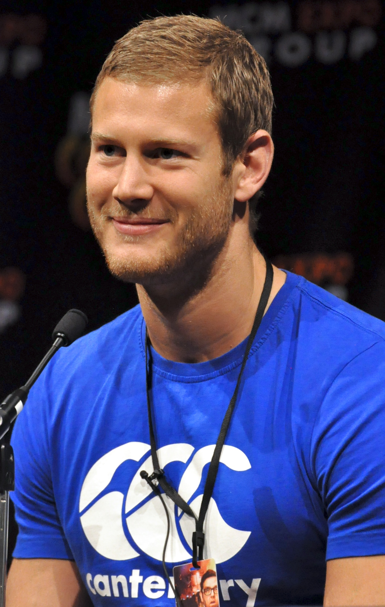 The following is the author's description of the photograph quoted directly from the photograph's Flickr page.